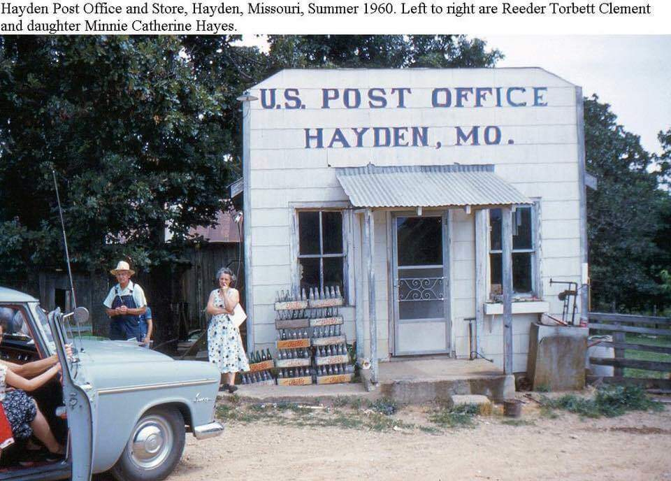 A photo of the Hayden Post Office. The post office closed in 1972 and the store was closed in 1984.